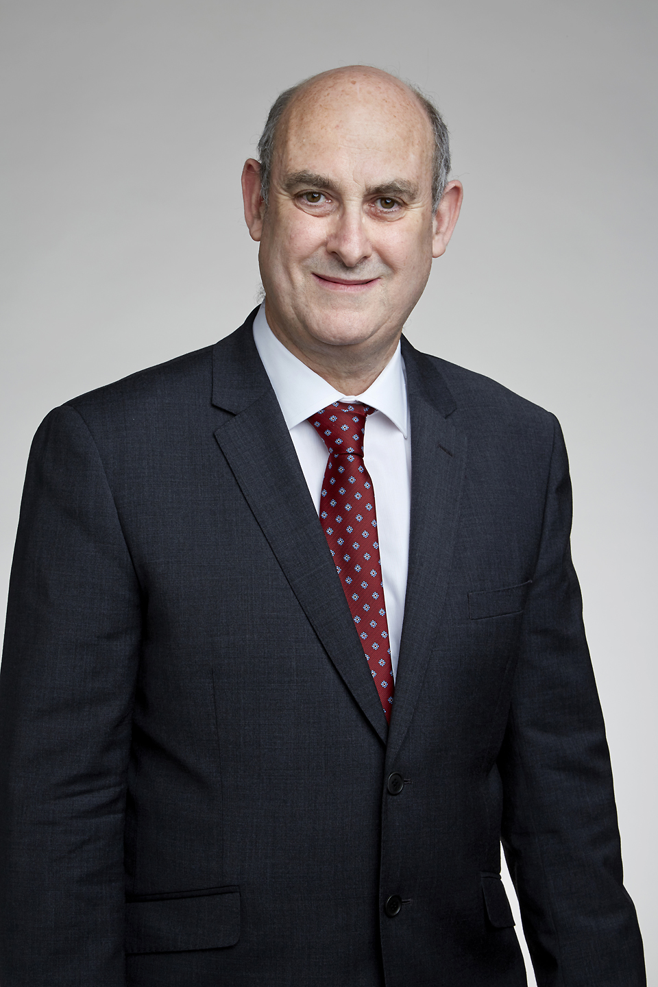 Harry J. Gilbert FRS FMedSci is Professor of Agricultural Biochemistry and Nutrition in the Institute For Cell and Molecular Biosciences at Newcastle University. Attribution: The Royal Society